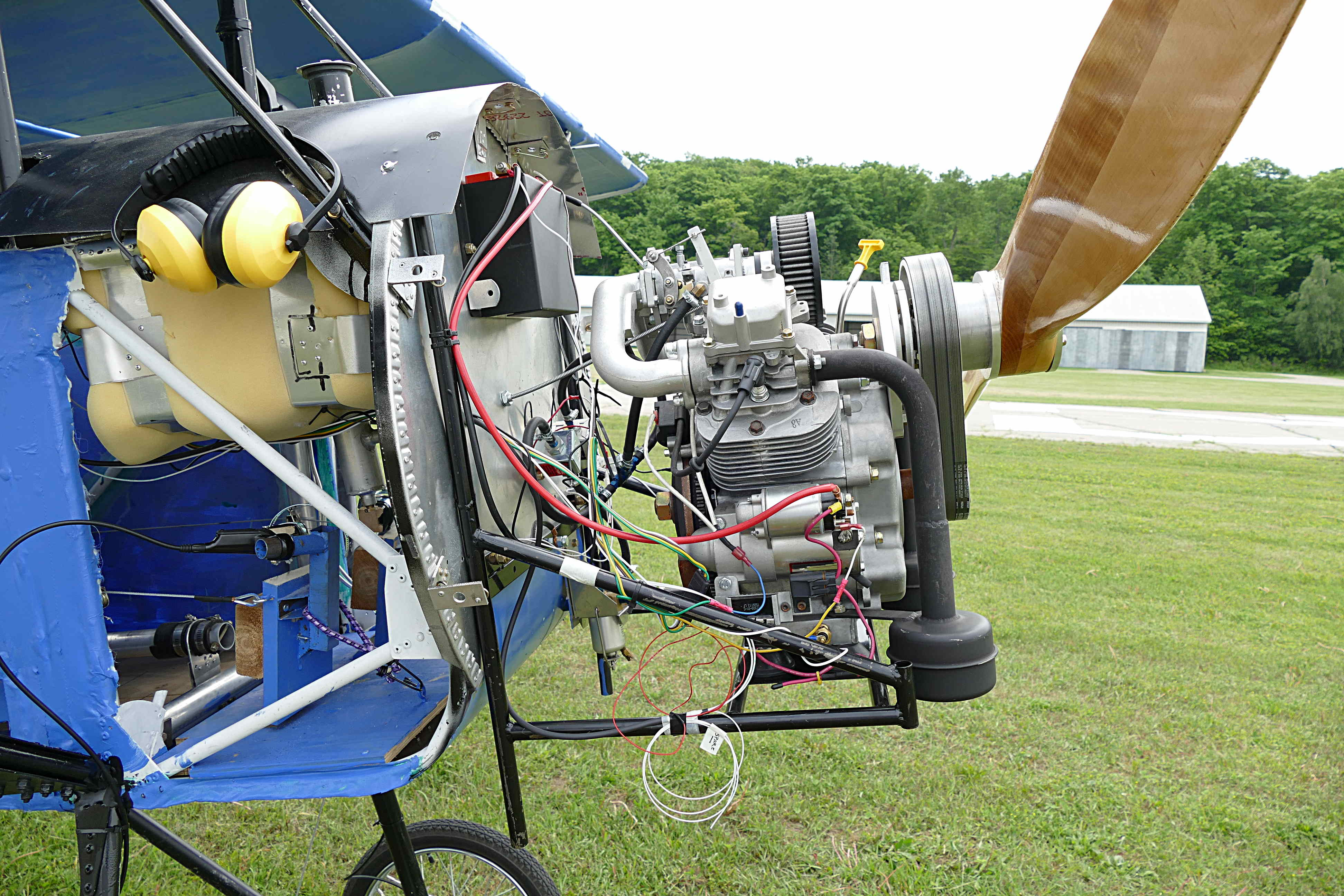 The engine of an Airdrome Aeroplanes replica of the Morane-Saulnier L. Photographed at the Guelph Airpark, Guelph, Ontario, Canada, near runway 23.